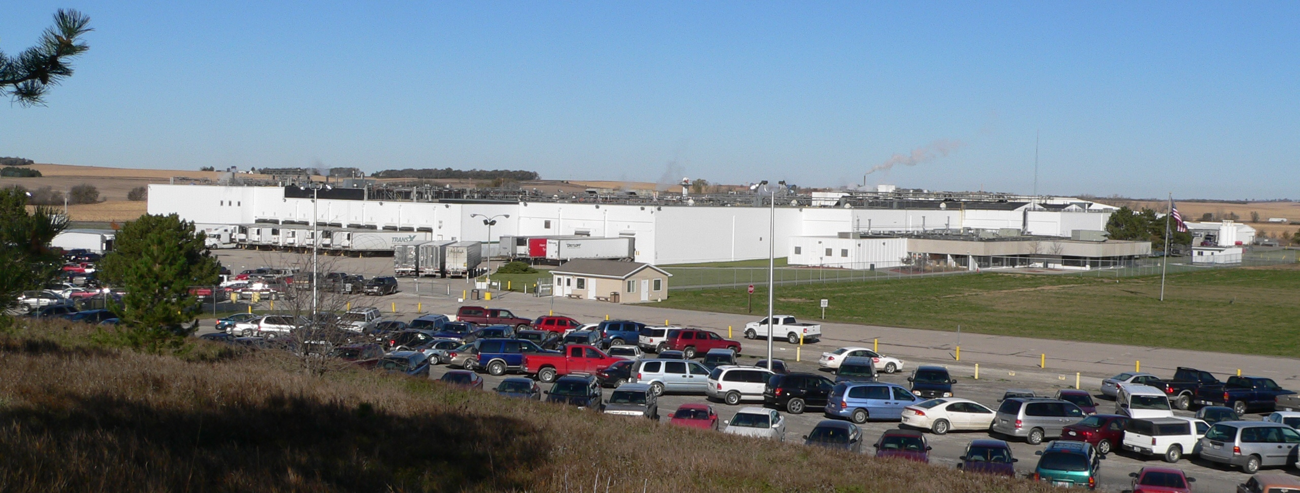 Tyson FoodsMadison, Nebraska.